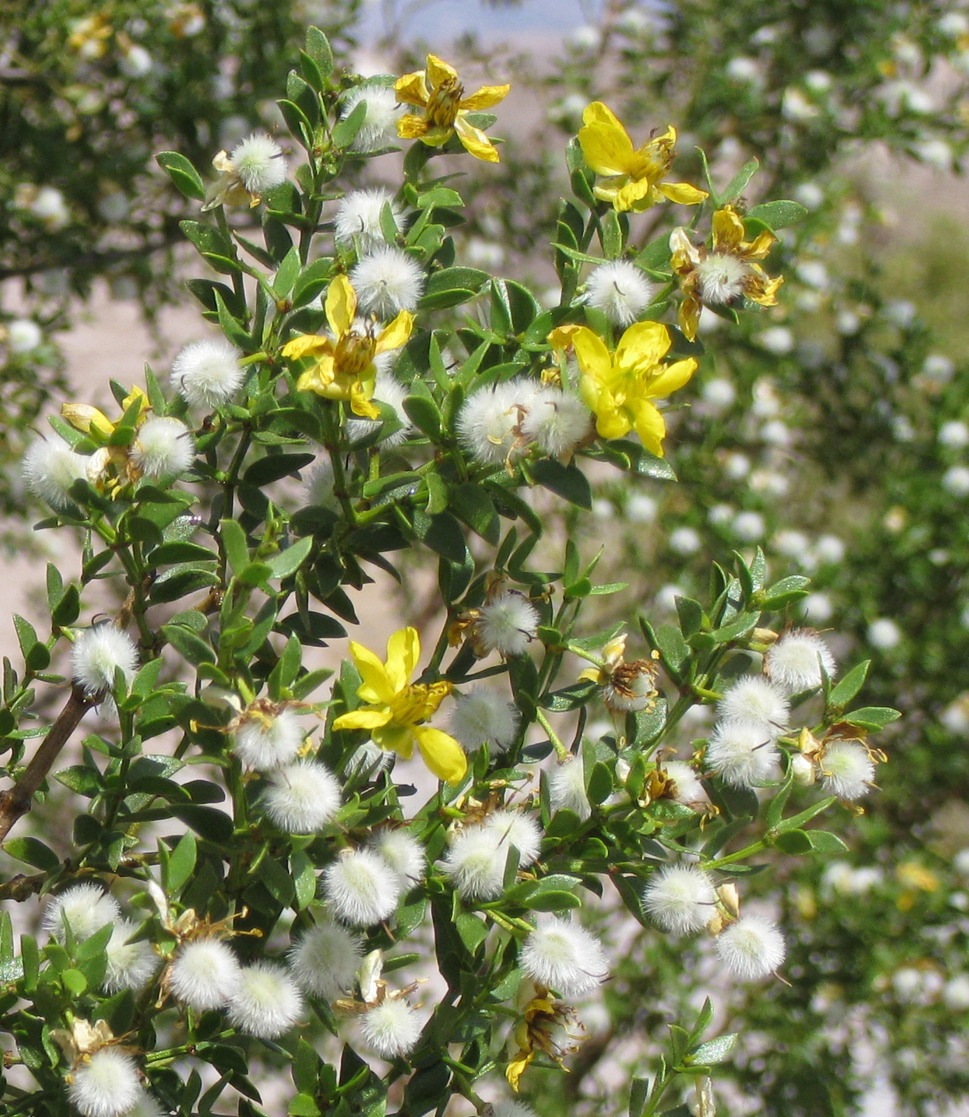 Creosote-bush (Larrea tridentata) flowers and seed heads, in the 2016 Death Valley superbloom. At the Visitor Center in Furnace Creek.